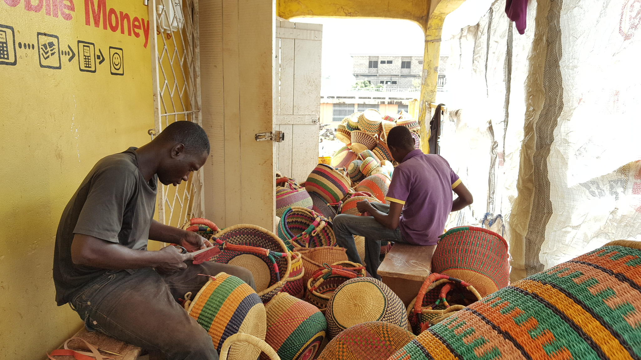 Beautiful Basket Weavers of Bolgatanga in Upper East Region of Ghana This is an image of "African people at work" from Ghana